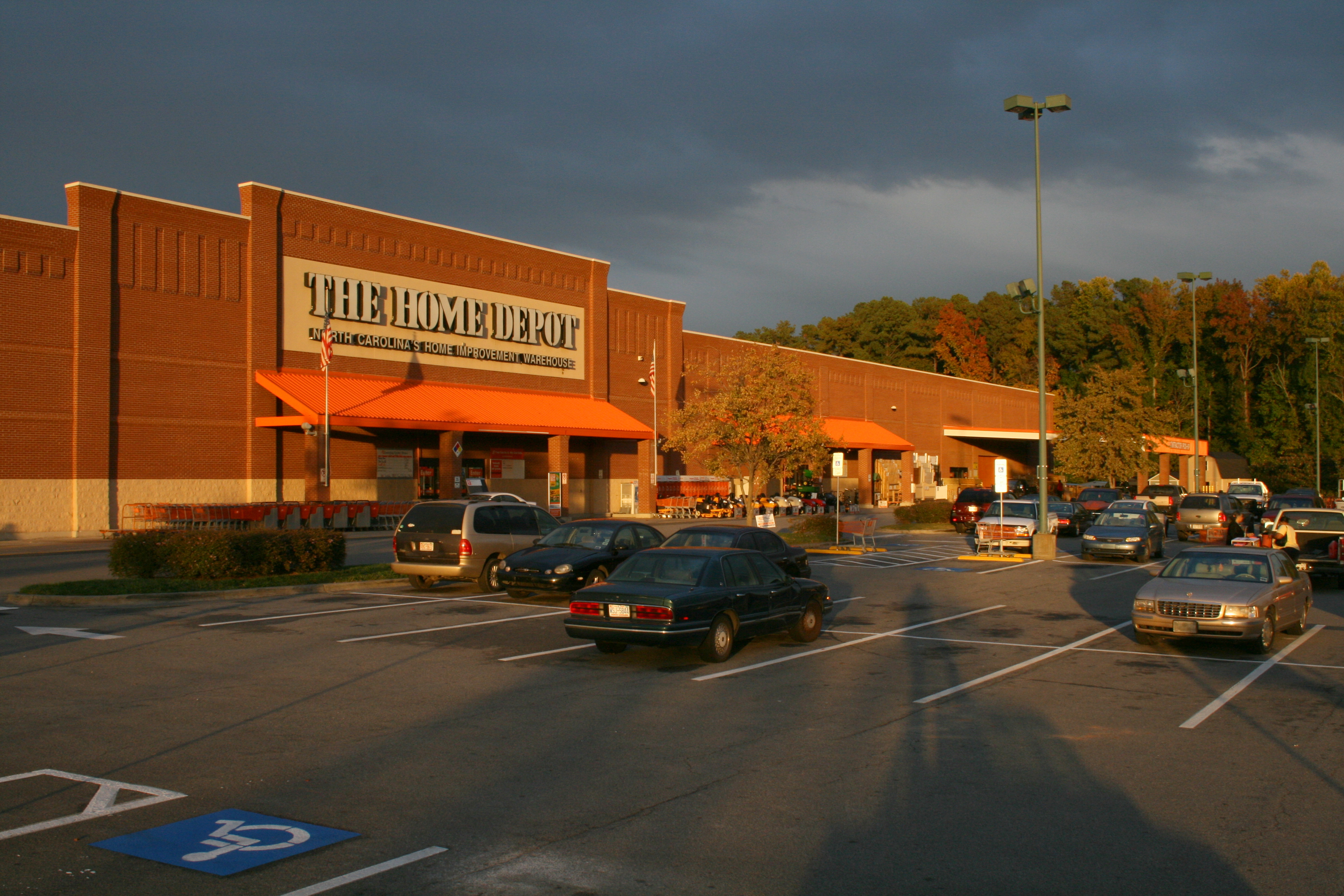 The Home Depot at the North Pointe Shopping Center in Durham, North Carolina in the evening.